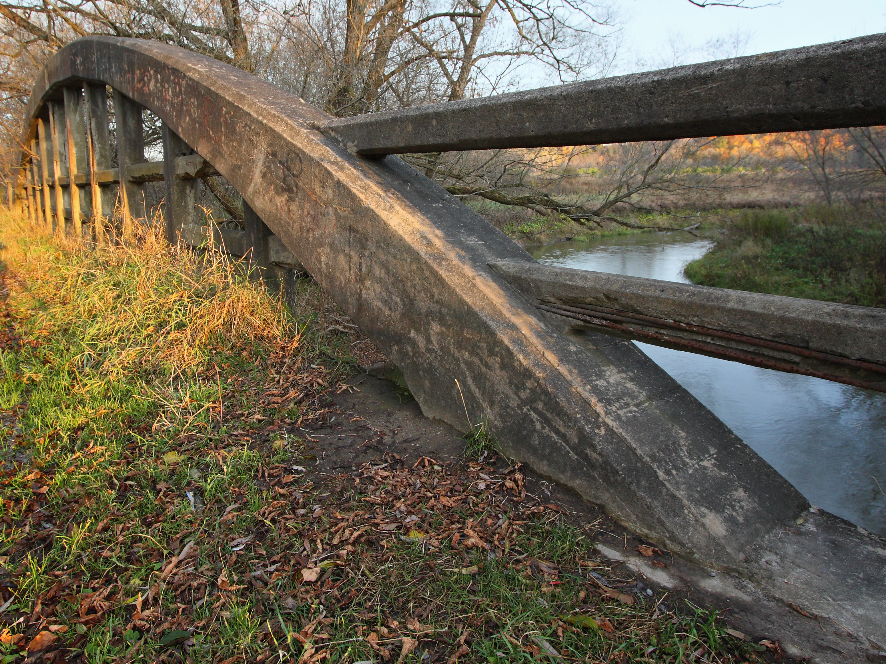 Along the Humber Valley Heritage Trail near Kleinburg Ontario.